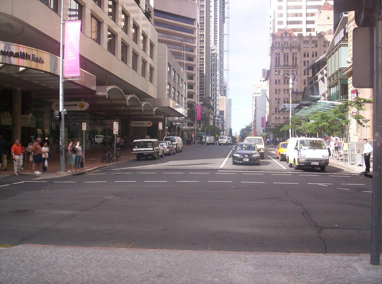 Queen Street from Queens Street Mall ( this photograph was taken by Figaro )